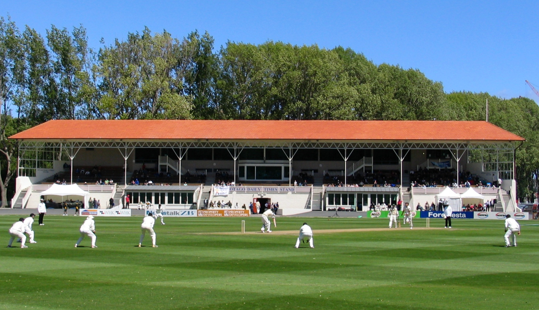 Looking towards the grandstand during a cricket test match, New Zealand vs Pakistan, at the University Oval in Dunedin, New Zealand. New Zealand Historic Places Trust Register number: 2193.